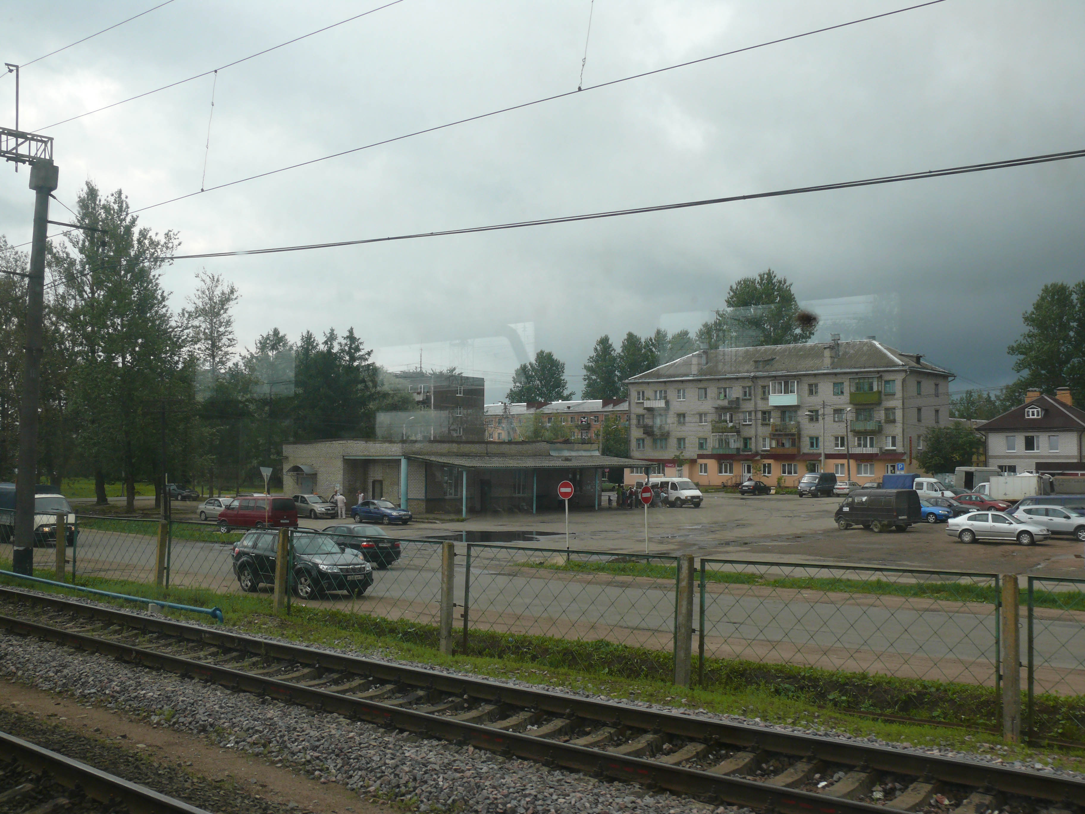 Bus station in Chudovo, Novgorod oblast, Russia